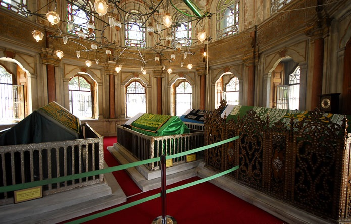 Interior view of the mausoleum of Mihrişah valide sultan